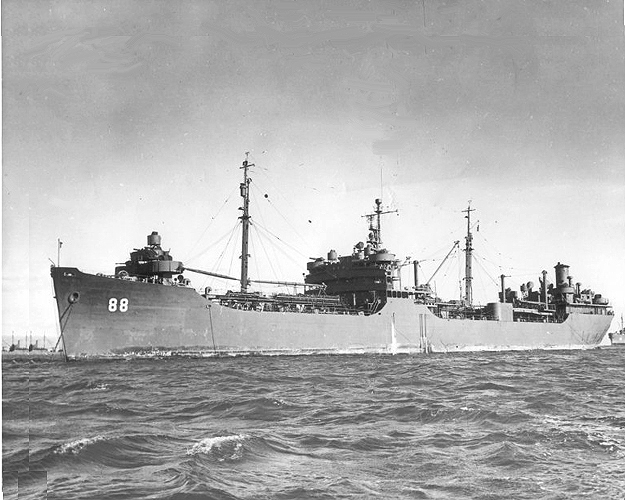 The U.S. Navy fleet oiler USS Tomahawk (AO-88) at anchor, circa in 1945.